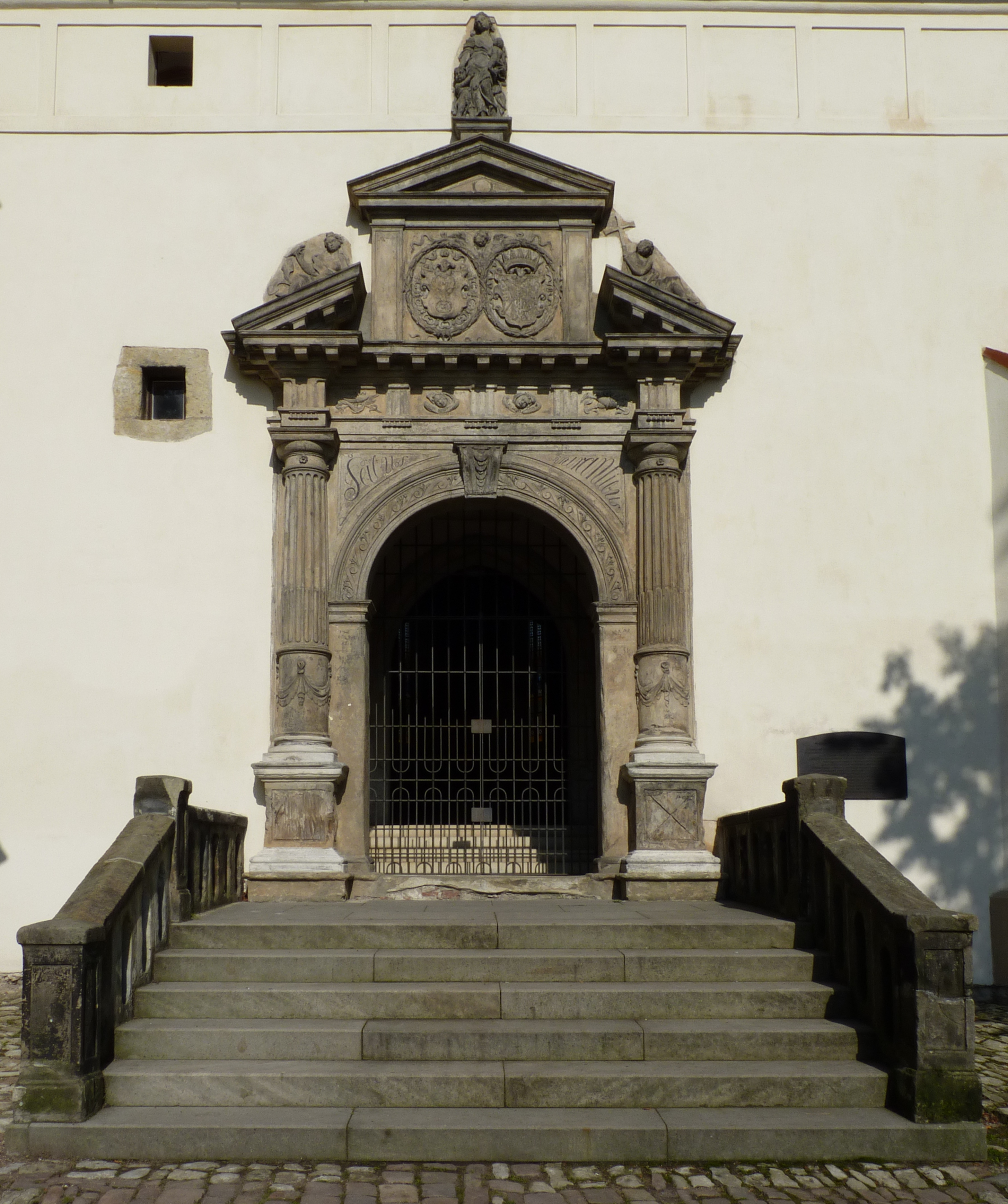 Litomyšl, Svitavy District, Pardubice Region, Czech Republic